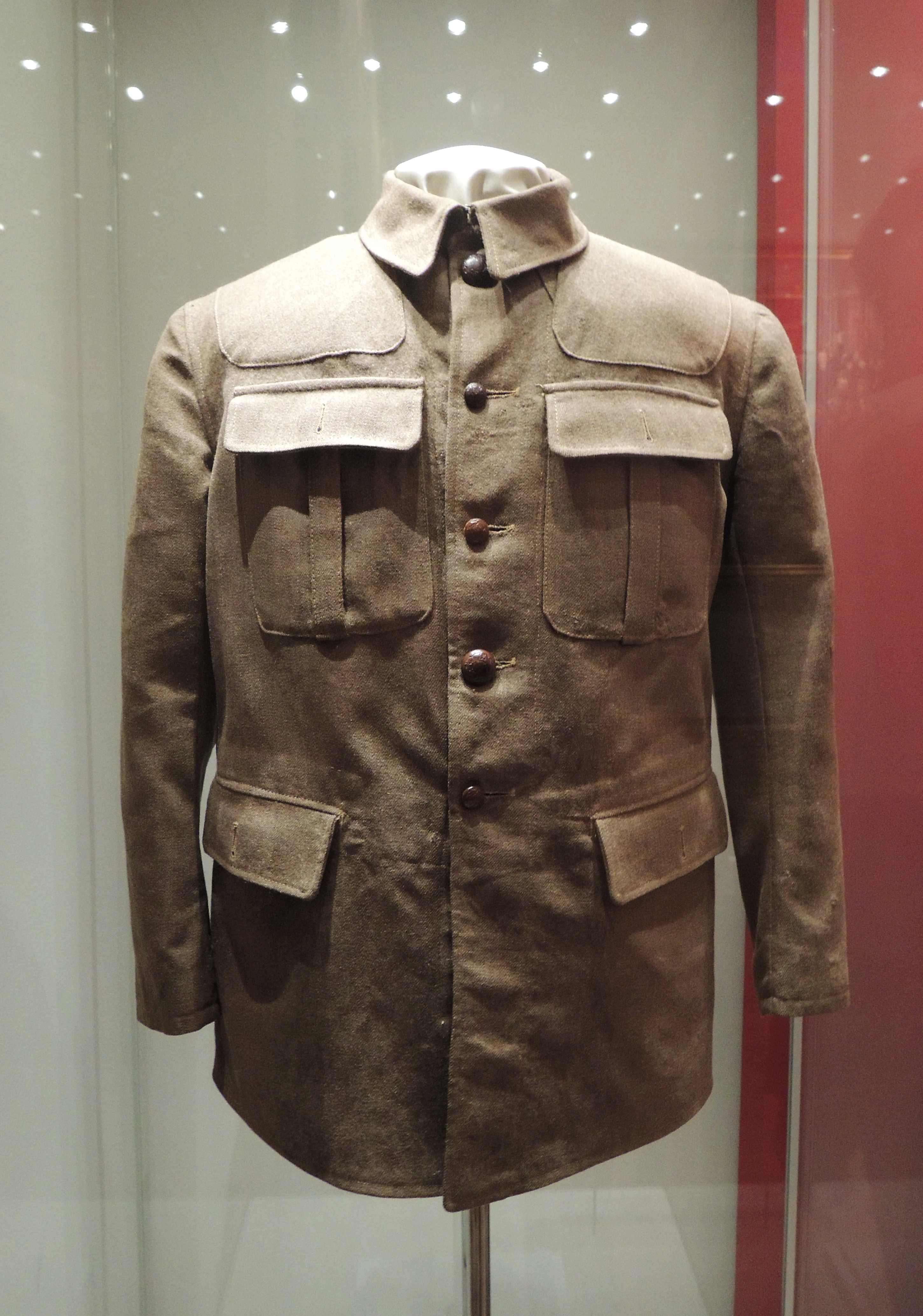 Lenin's frech